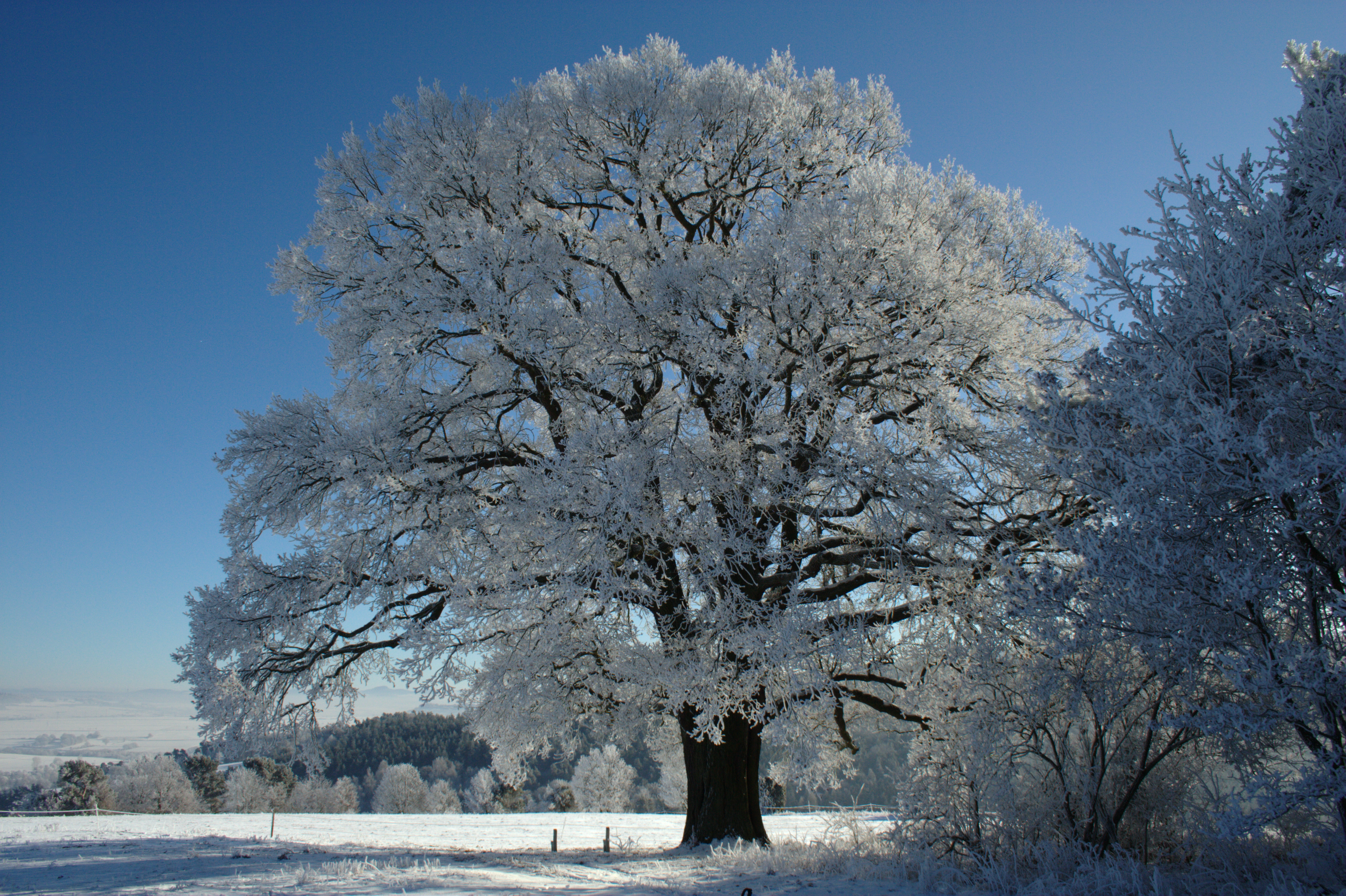 Oak (Quercus robur) in winter in Landenhausen Wartenberg, Hesse, Germany; natural monument